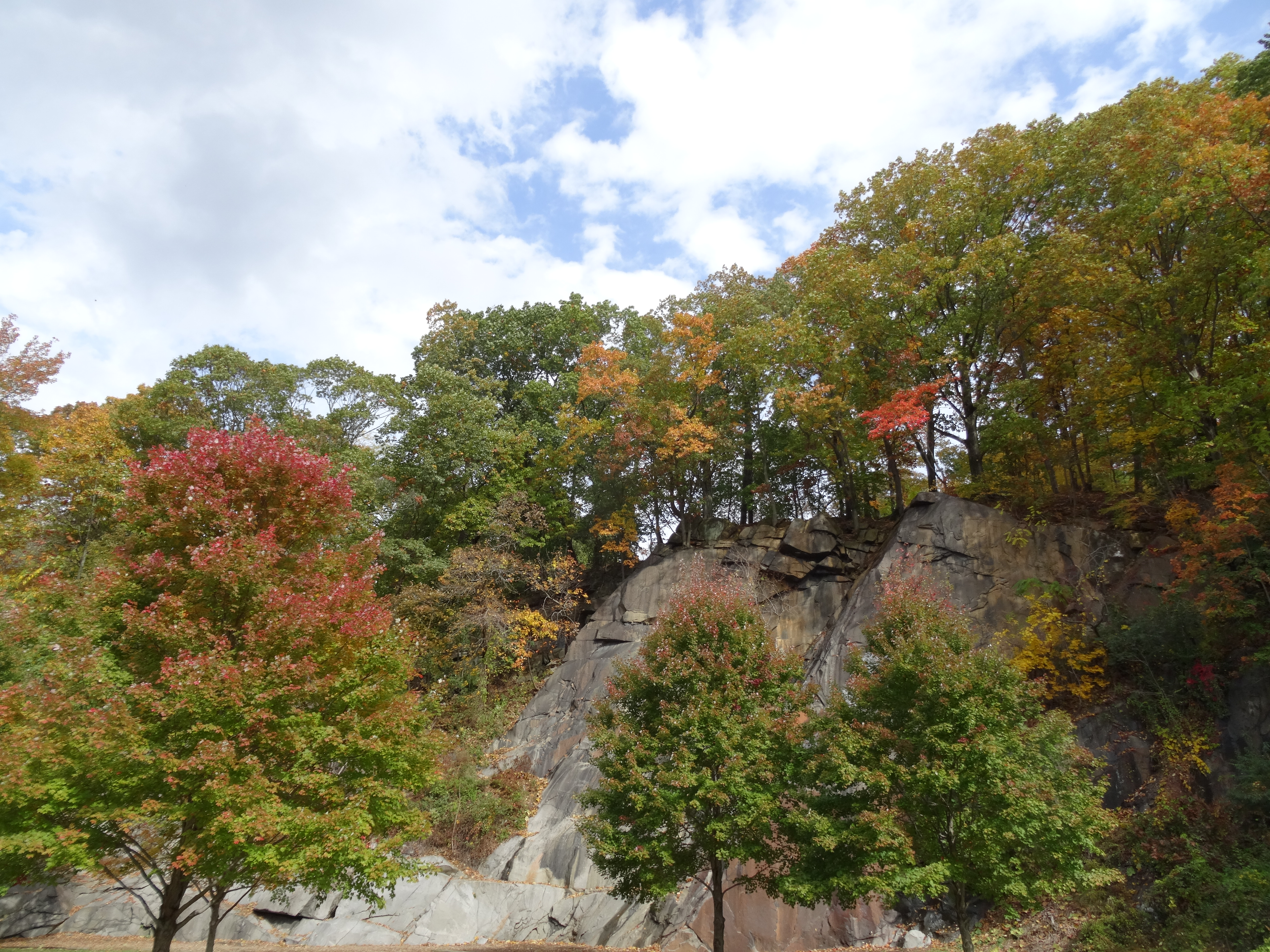 Rock climbing wall at Alapocas Run State Park.